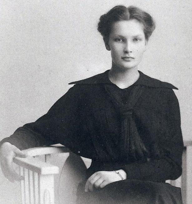 1918. The daughter of Evgeny Botkin, Nikolai II's physician, who was killed along with the Imperial family, wrote a memoir of their time in Russia.